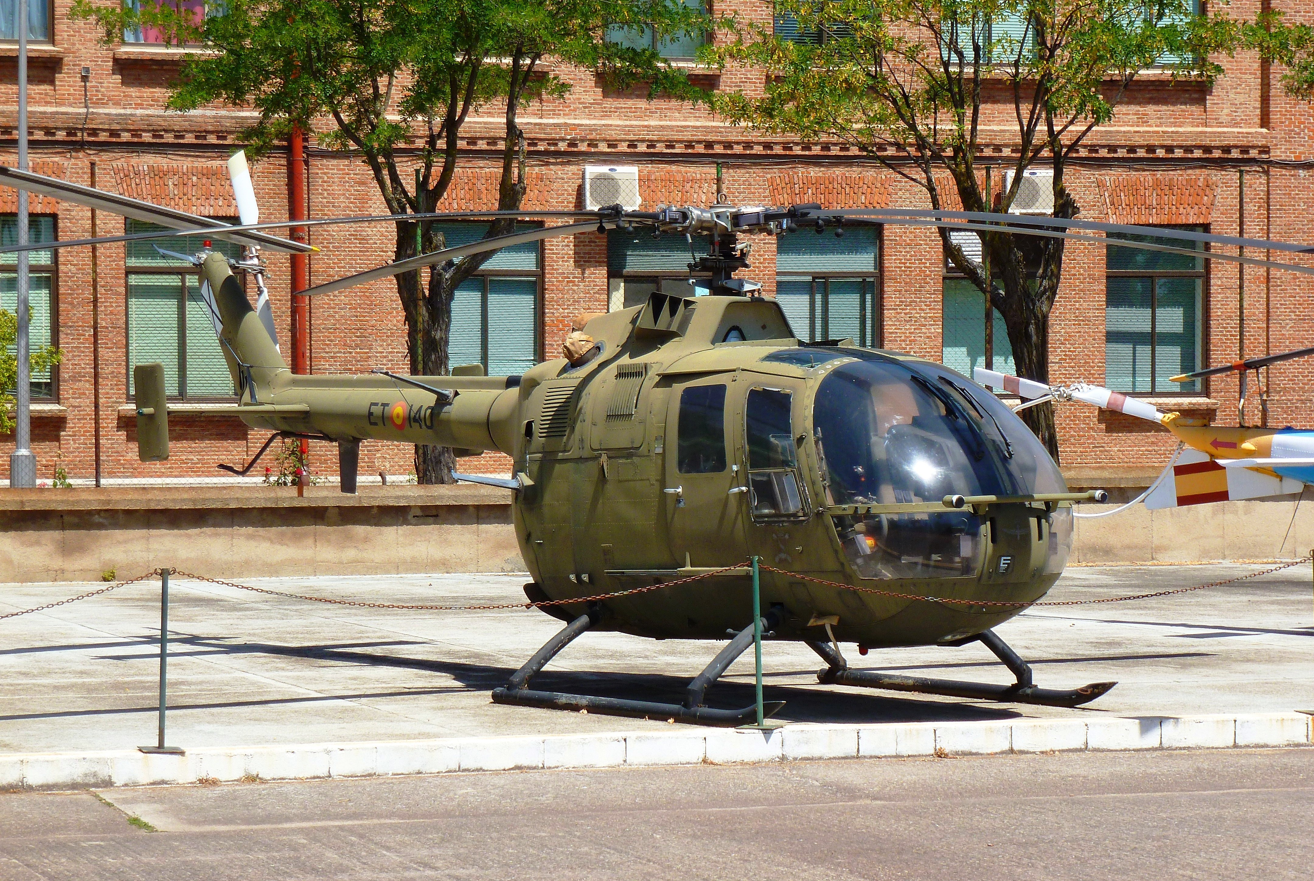 Bo-105LOH of the Spanish Army.